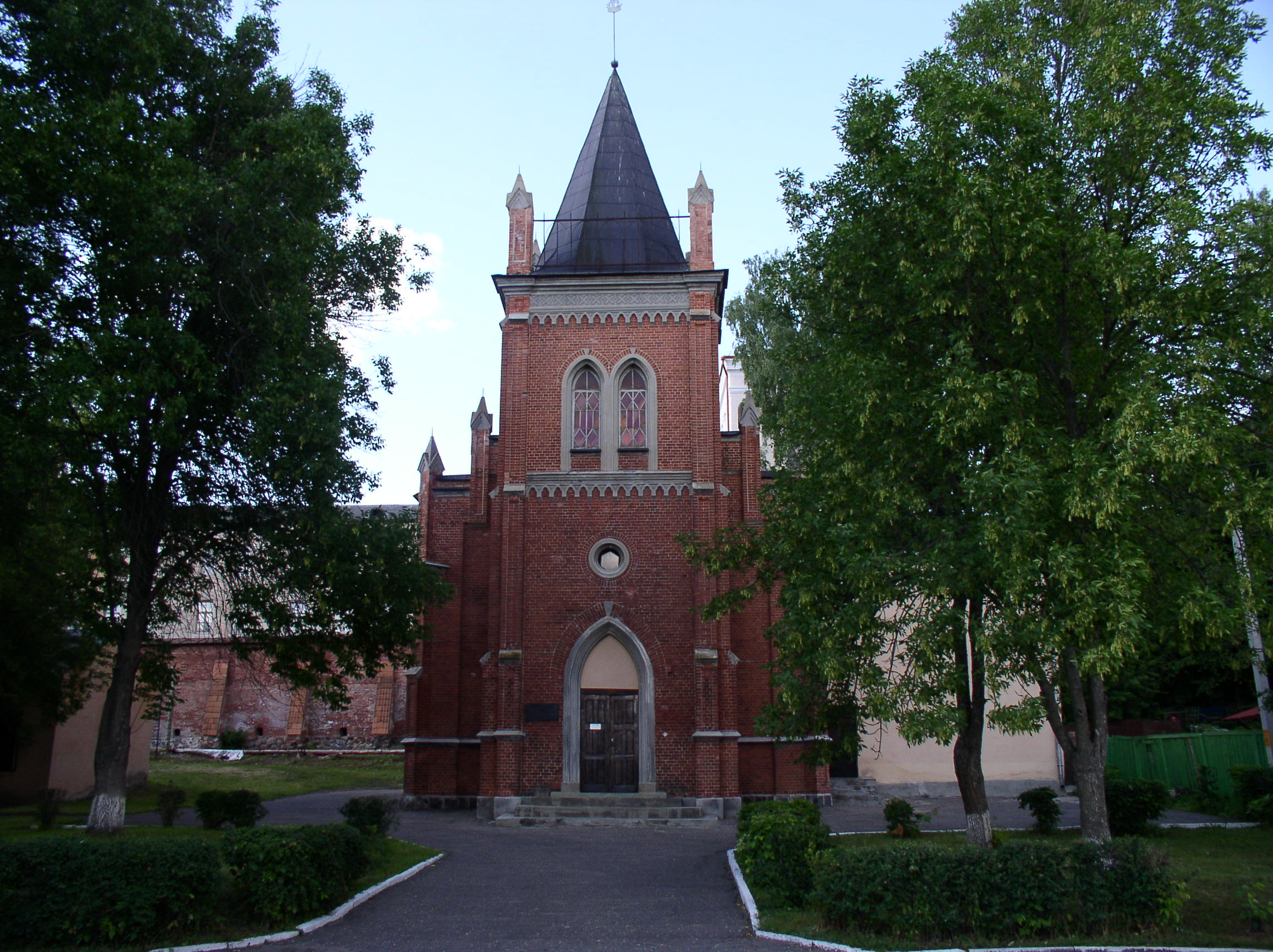 Lutheran church. Polatsk, Belarus.